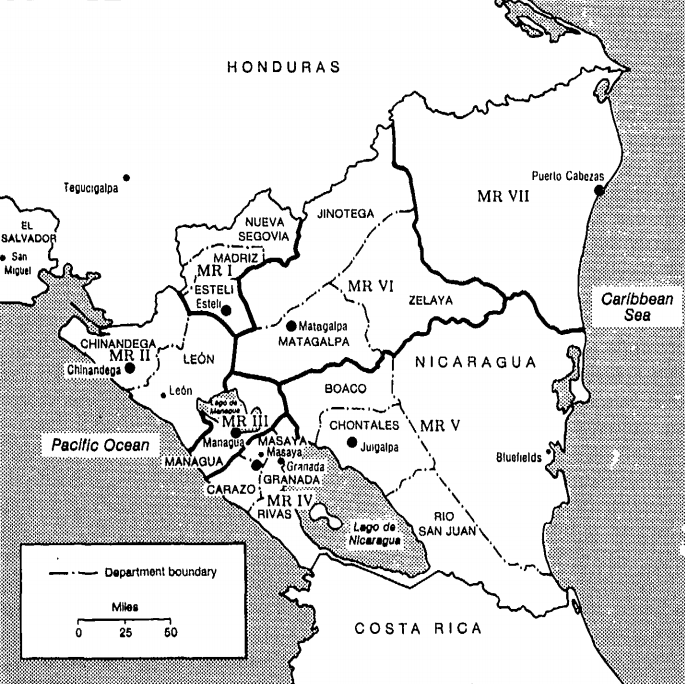 Ejército Popular Sandinista military regions (MR) map by Col. Alden Cunningham. From The Nicaraguan Resistance and U.S. Policy, p.39.